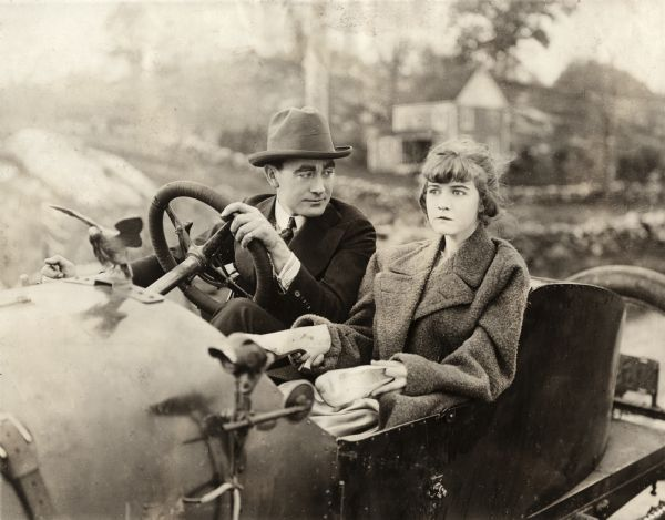 Owen Moore and Dorothy Gish in a scene still for the 1916 silent drama Betty of Graystone.